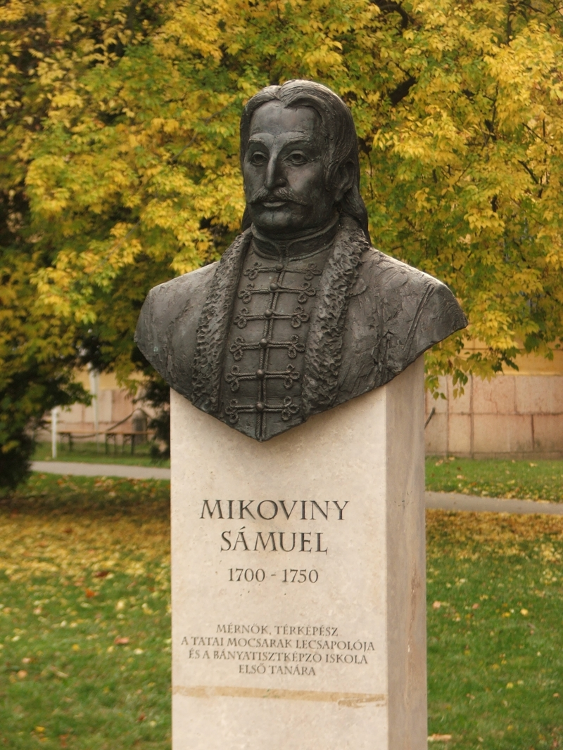 Samuel Mikovíny breast sculpture it on the coast of a Old-lake, in Tata city.